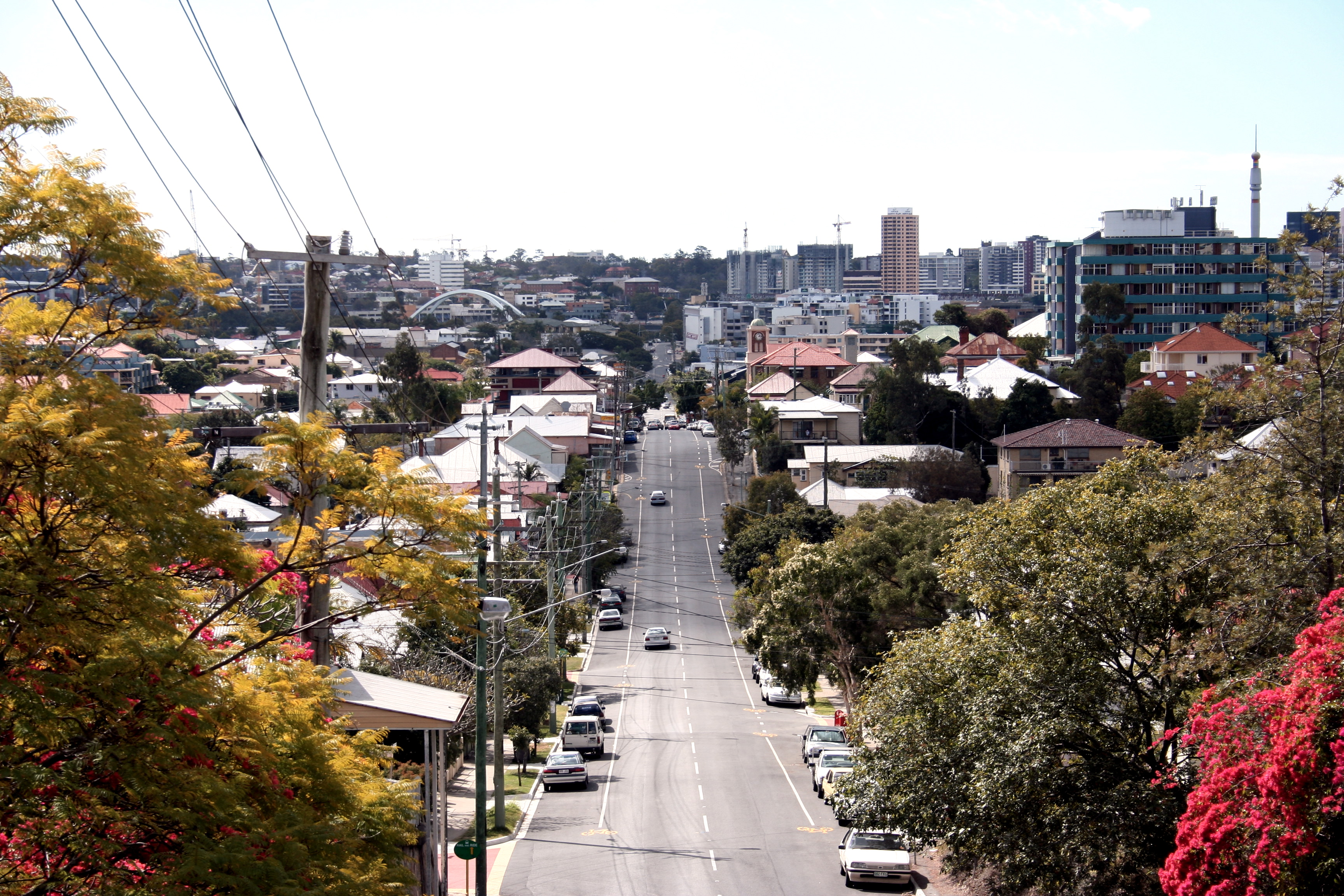 View down Boundary St towards West End/Highgate Hill from Dornoch Tce bridge. West End, Brisbane, Queensland, Australia.